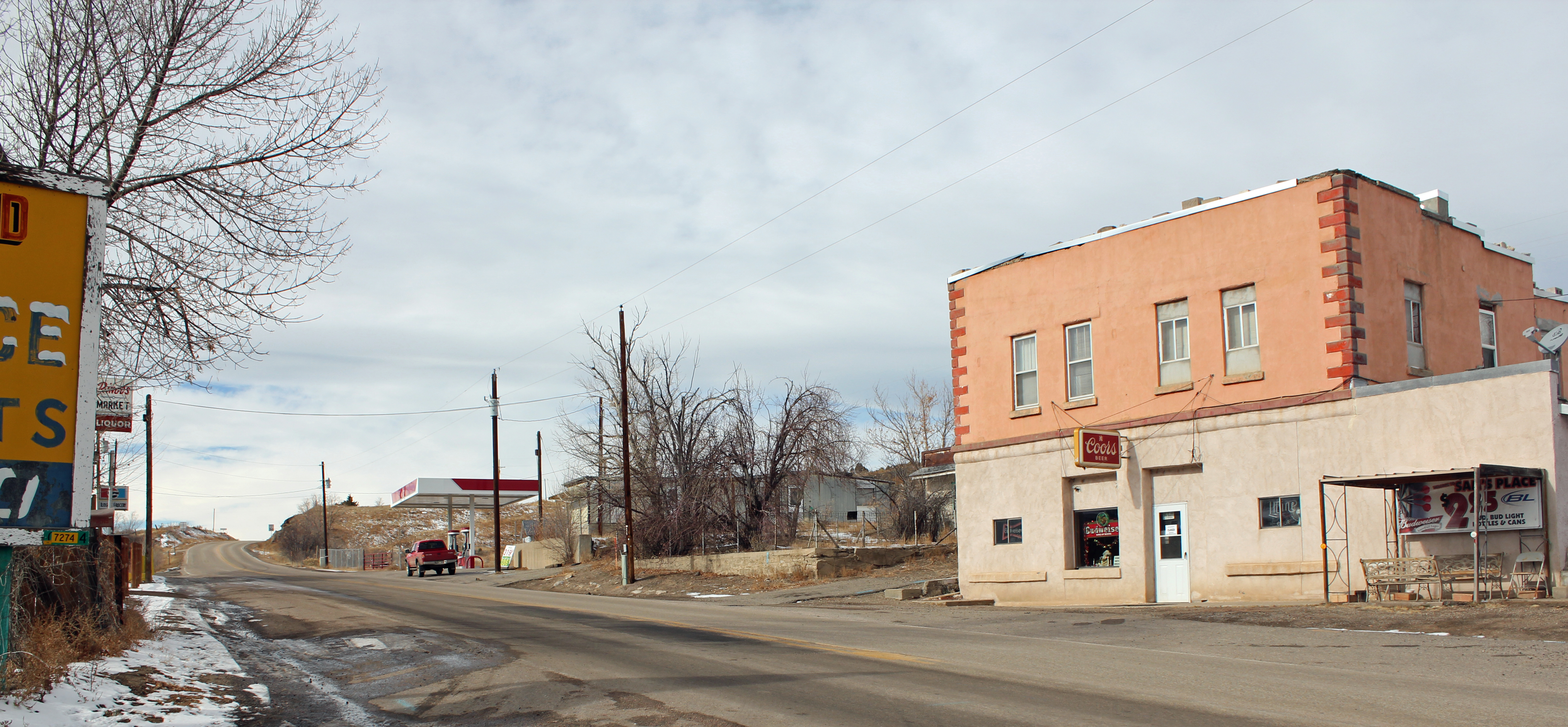 Segundo, Colorado. Colorado State Highway 12, the road in the picture, serves as the town's main street.